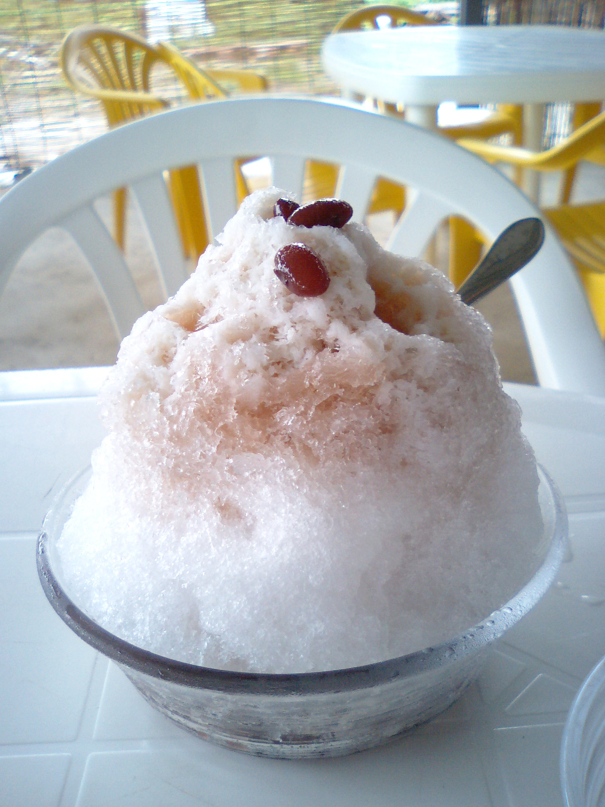 Zenzai of Okinawa Prefecture.